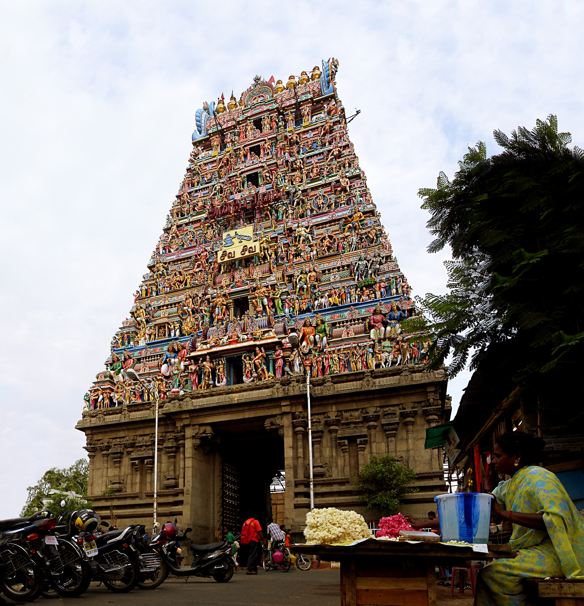 The main east enterance of the Mylapore Kapaleeshwarar temple.